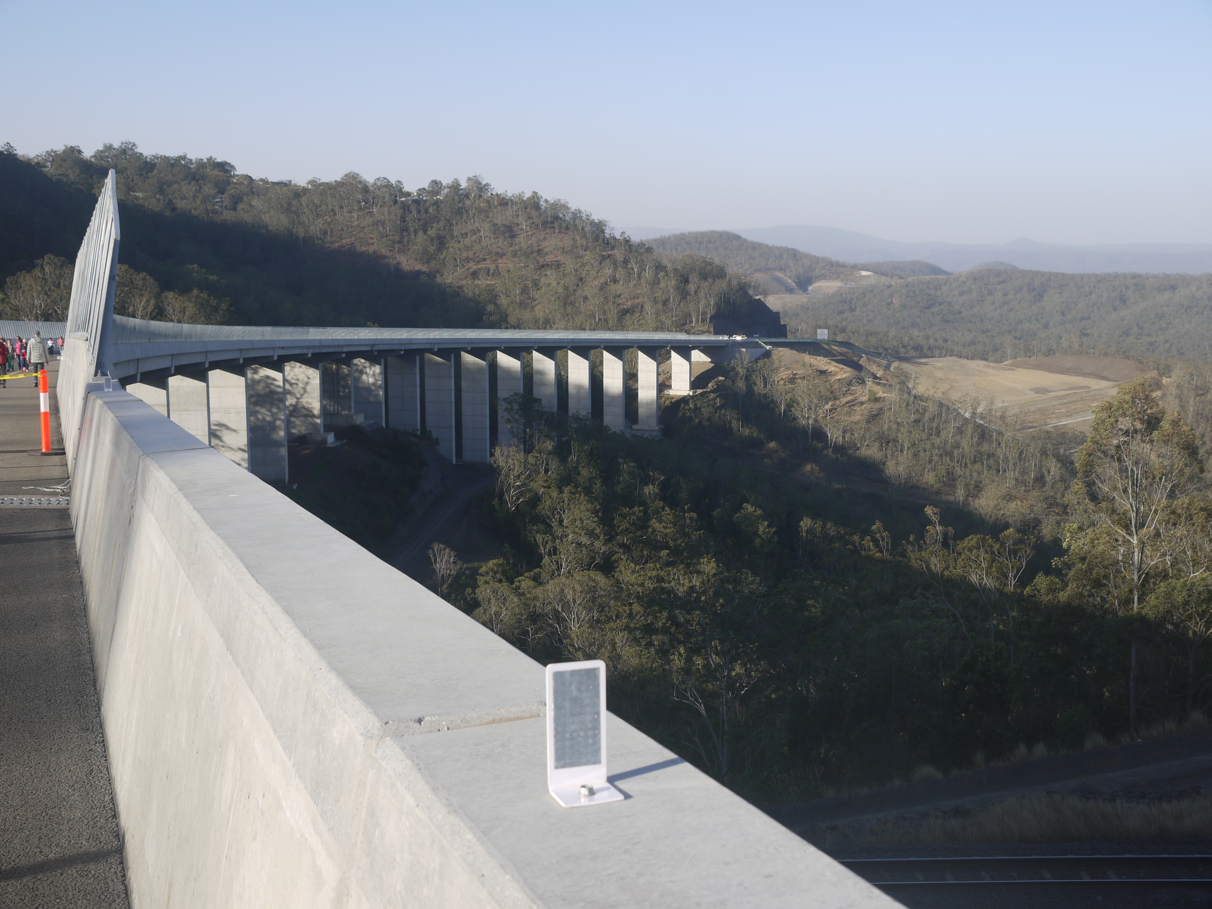 Toowoomba Second Range Crossing - Viaduct. Taken on Community Open Day, 7 September 2019.